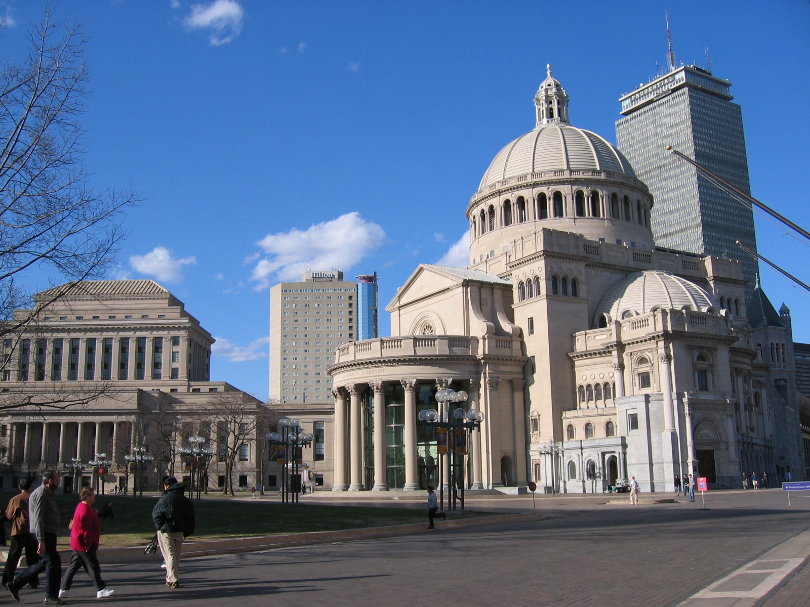 Christian Science Center, showing the Mother Church Extension and (left) Christian Science Publishing House